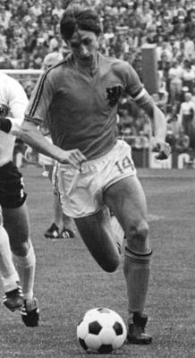 Title: Fußball-WM, BRD - Niederlande 2:1 Factual corrections and alternative descriptions are encouraged separately from the original description. Additionally errors can be reported at this page to inform the Bundesarchiv. Original historic description: ADN-ZB-Mittelstädt-16.7.74-wen-München: X. Fußball-Weltmeisterschaft- Endspiel BRD gegen Niederlande 2:1 am 7.7.74- Johannes Cruyff (Niederlande, Mitte) setzt sich hier gegen die beiden BRD-Spieler Berti Vogts (2.von links) und Uli Hoeness (rechts) durch.